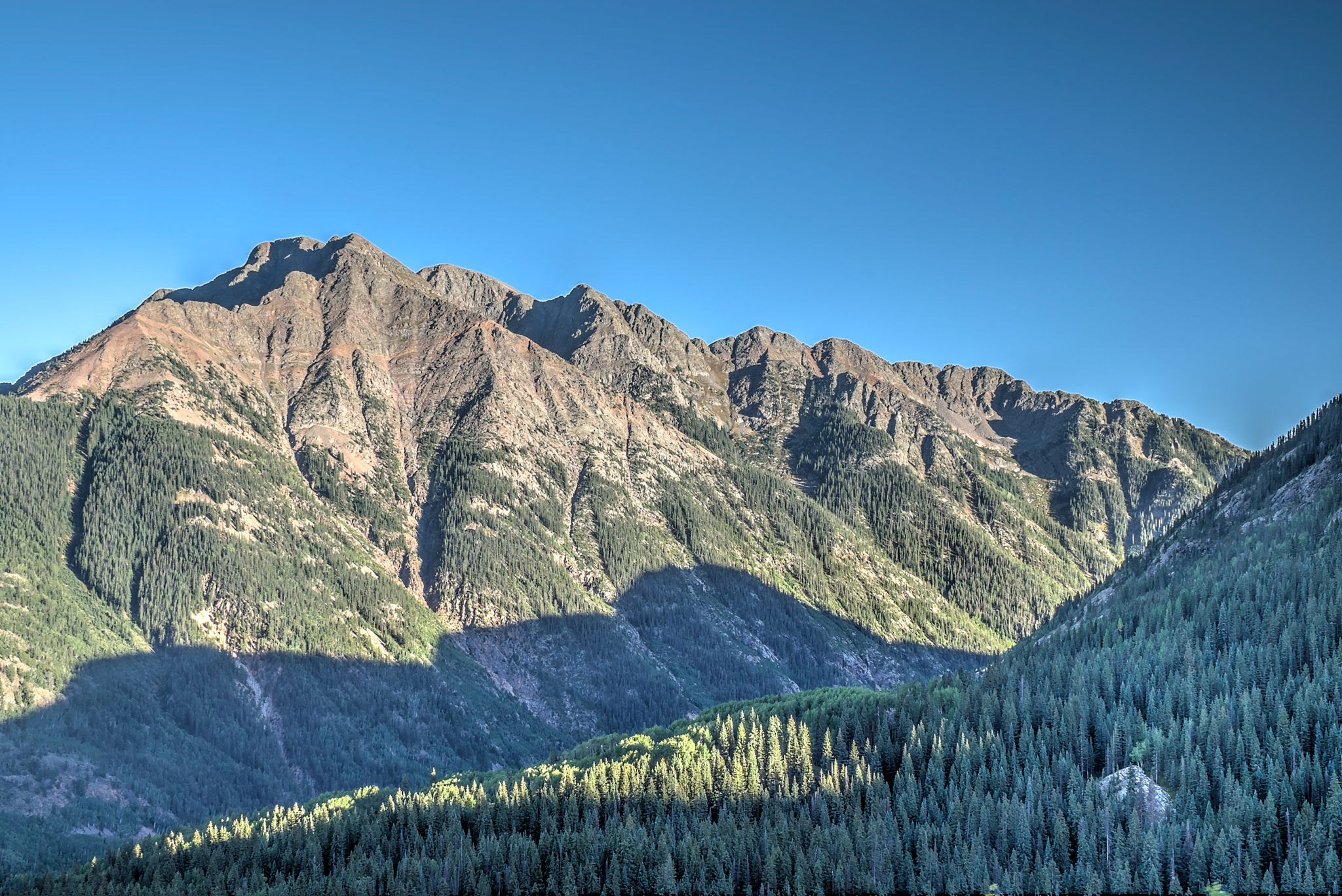 Twilight Peak from Highway 550